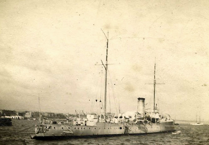 SMS Hela in Kingstown Harbour (Dun Laoghaire) Ireland (c.a.1900)